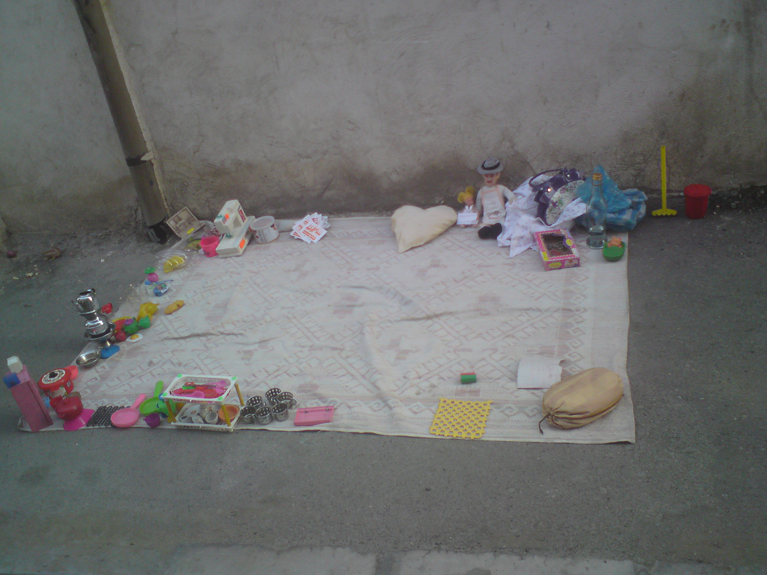 House (game) in alley in Iran